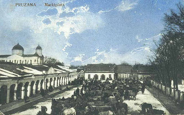 Market square (Marktplatz) in Pruzhany